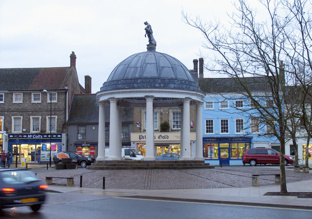 The Rotunda, Market Place, Swaffham, Norfolk Creative Commons Attribution Share-alike license 2.0 Licensing This image was taken from the Geograph project collection. See this photograph's page on the Geograph website for the photographer's contact details. The copyright on this image is owned by John Salmon and is licensed for reuse under the Creative Commons Attribution-ShareAlike 2.0 license. Attribution: John Salmon